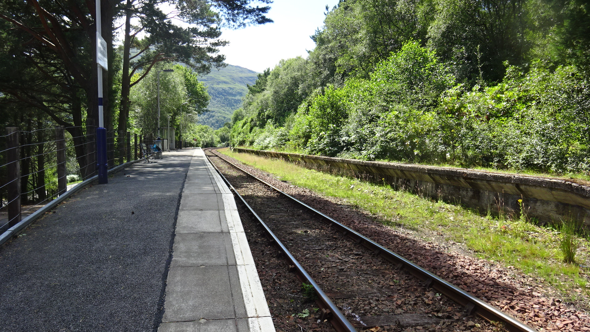 Lochailort railway station, Highland Council, Scotland. View of platforms looking towards Arisaig